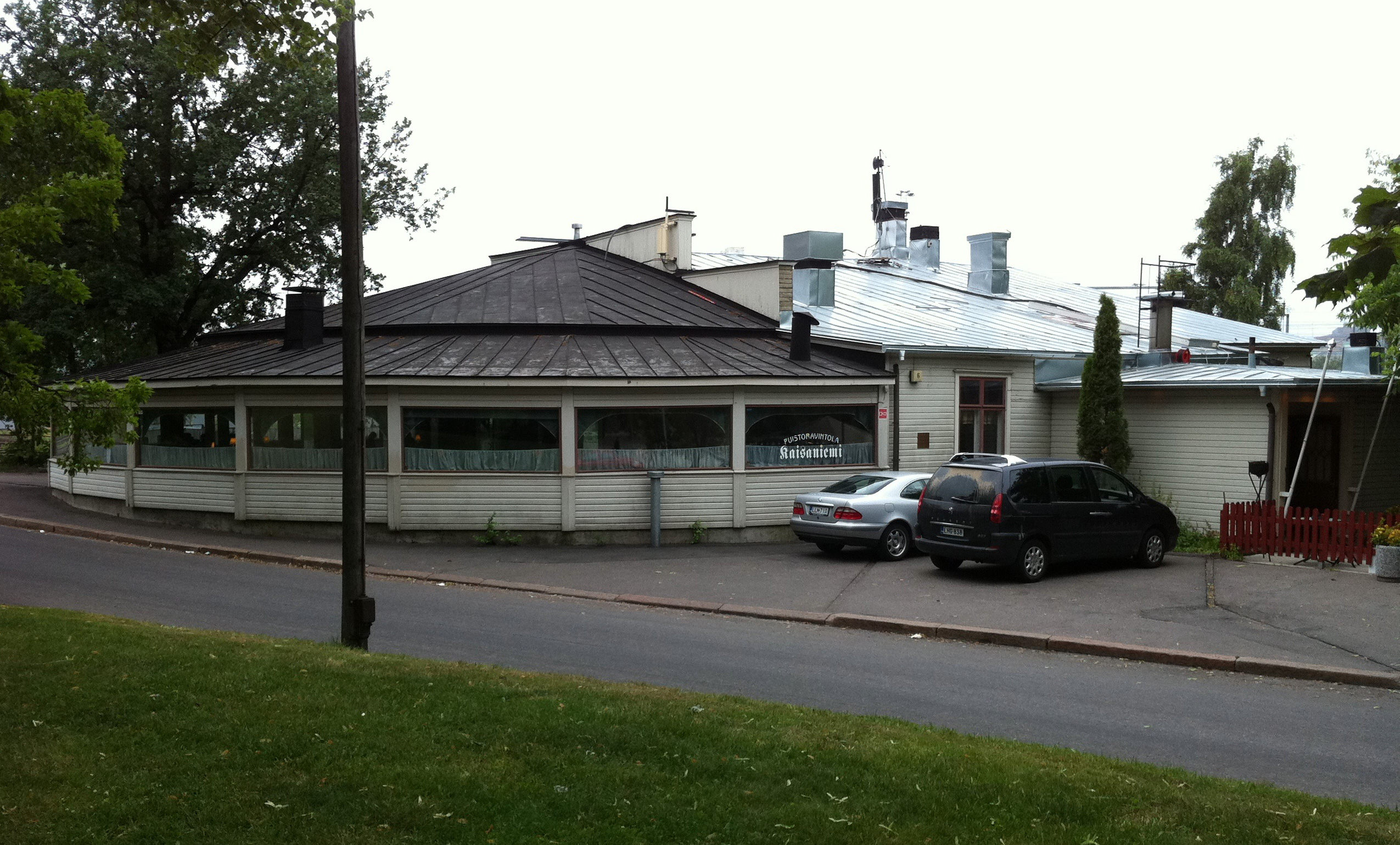 Restaurant Kaisaniemi, Helsinki